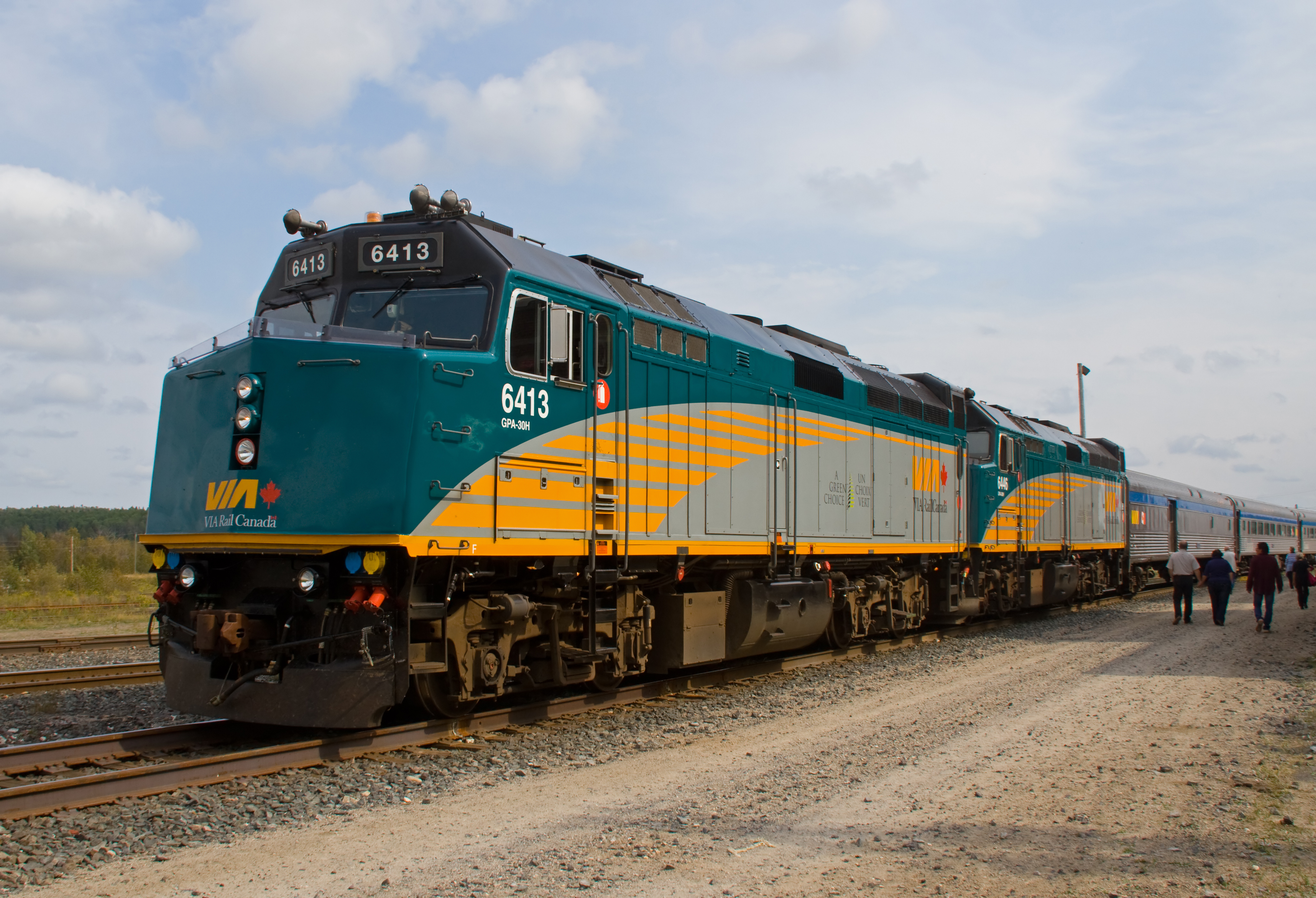 On the Train from Toronto to Edmonton